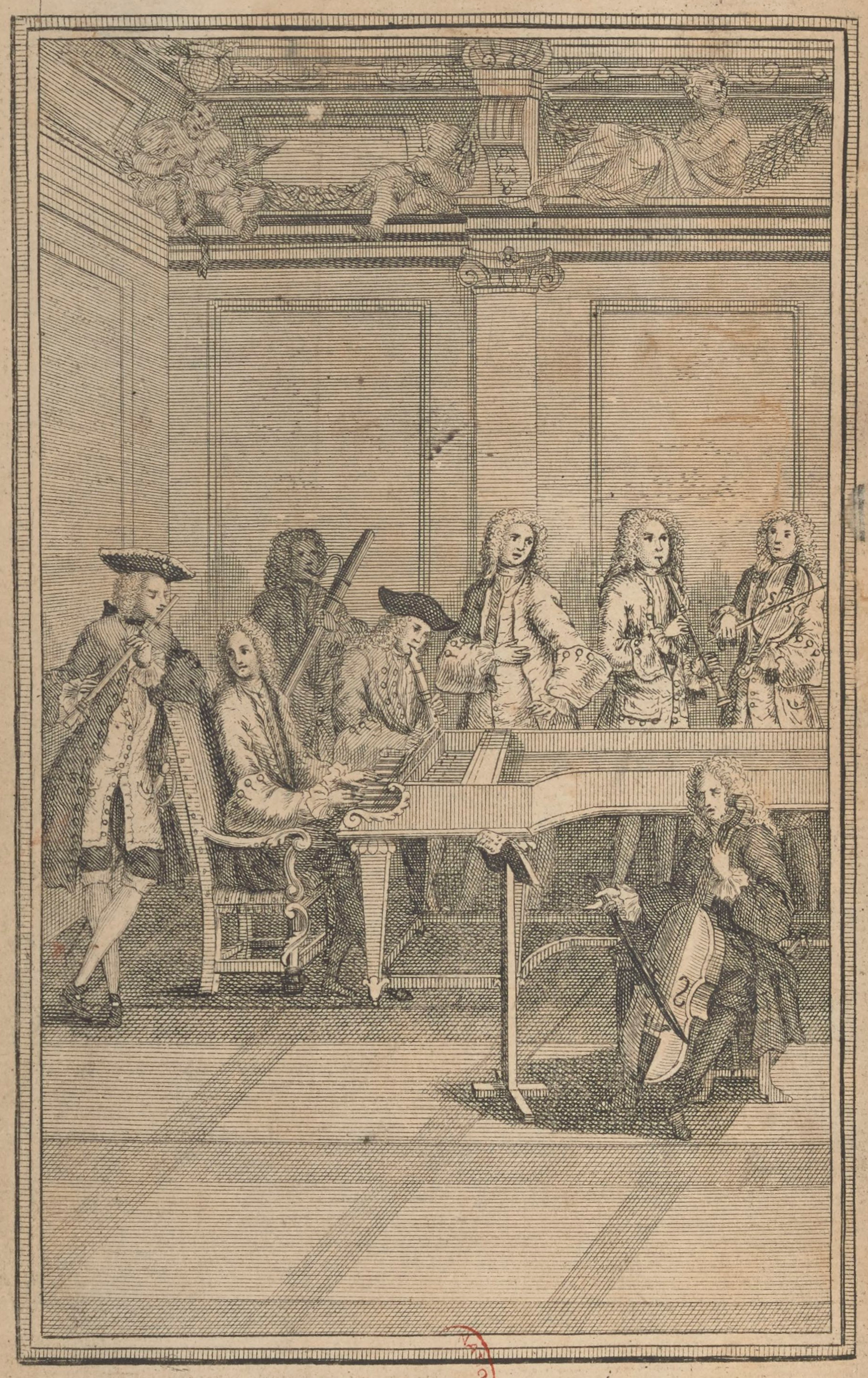 Frontipiece from The Modern Musick-Master or The Universal Musician" by Peter Prelleur, a manual on playing the recorder, violin and harpsichord with Tunes by contemporary composers such as Handel. Each separate part is preceded by an engraving by J. Smith, who also engraved the Frontispiece.